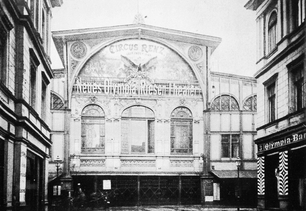 "Neues Olympia Riesen-Theater" at Berlin, Friedrich-Wilhelm-Stadt, Am Zirkus 1; main facade; photo 1898 erected 1865-1867 as market hall, 1879-1897 home of Circus Renz, 1899-1918 home of Zirkus Schumann, 1919 converted by Hans Poelzig into the famous Max-Reinhardt-theater "Großes Schauspielhaus"; several refurbishings and modifications, demolished in 1988 due to structural damages